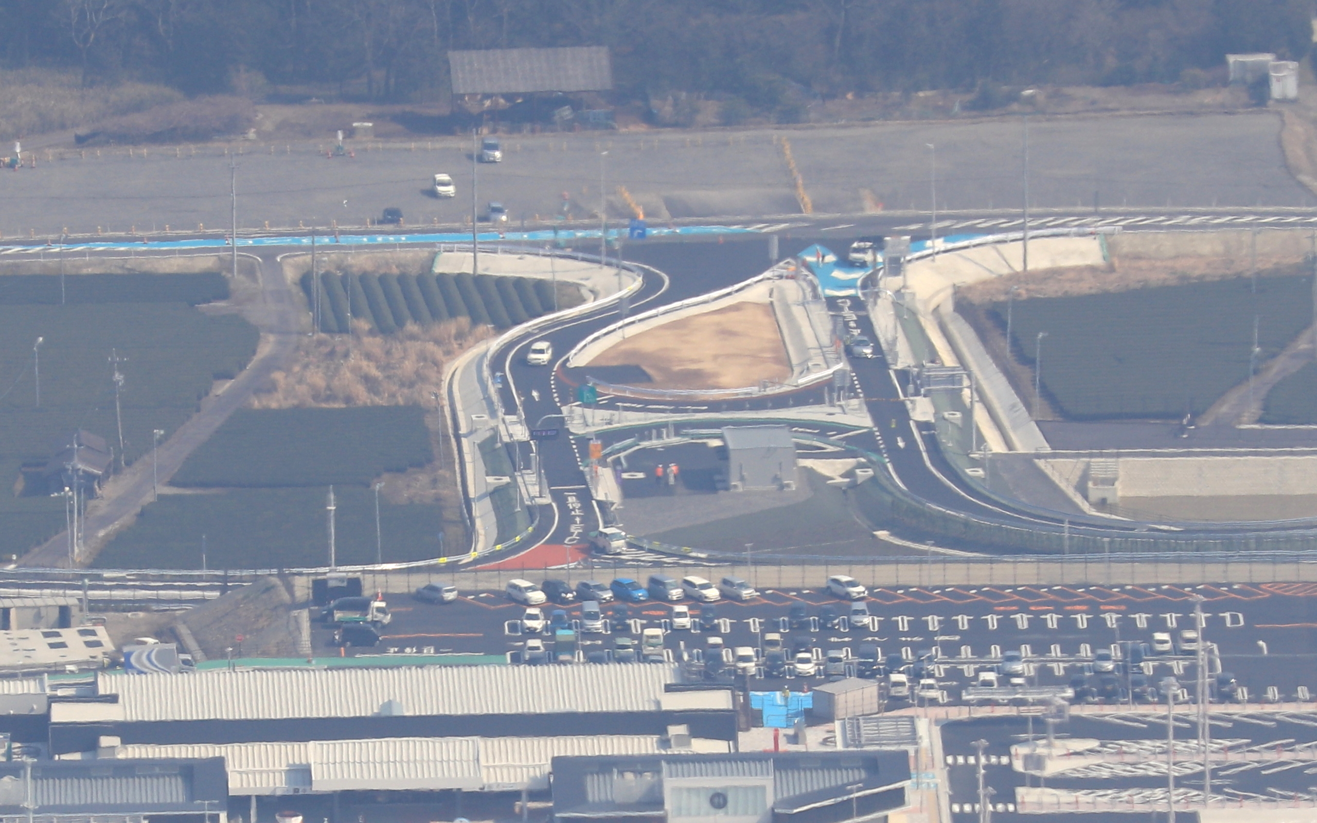 Suzuka Parking Area Smart Interchange on Shin-Meishin Expressway seen from Mount Nyudo (Suzuka Mountains) in Suzuka, Mie Prefecture, Japan. Canon EOS Kiss X9